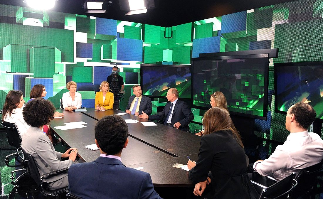 Vladimir Putin visited the new Russia Today broadcasting centre and met with the channel's leadership and correspondents